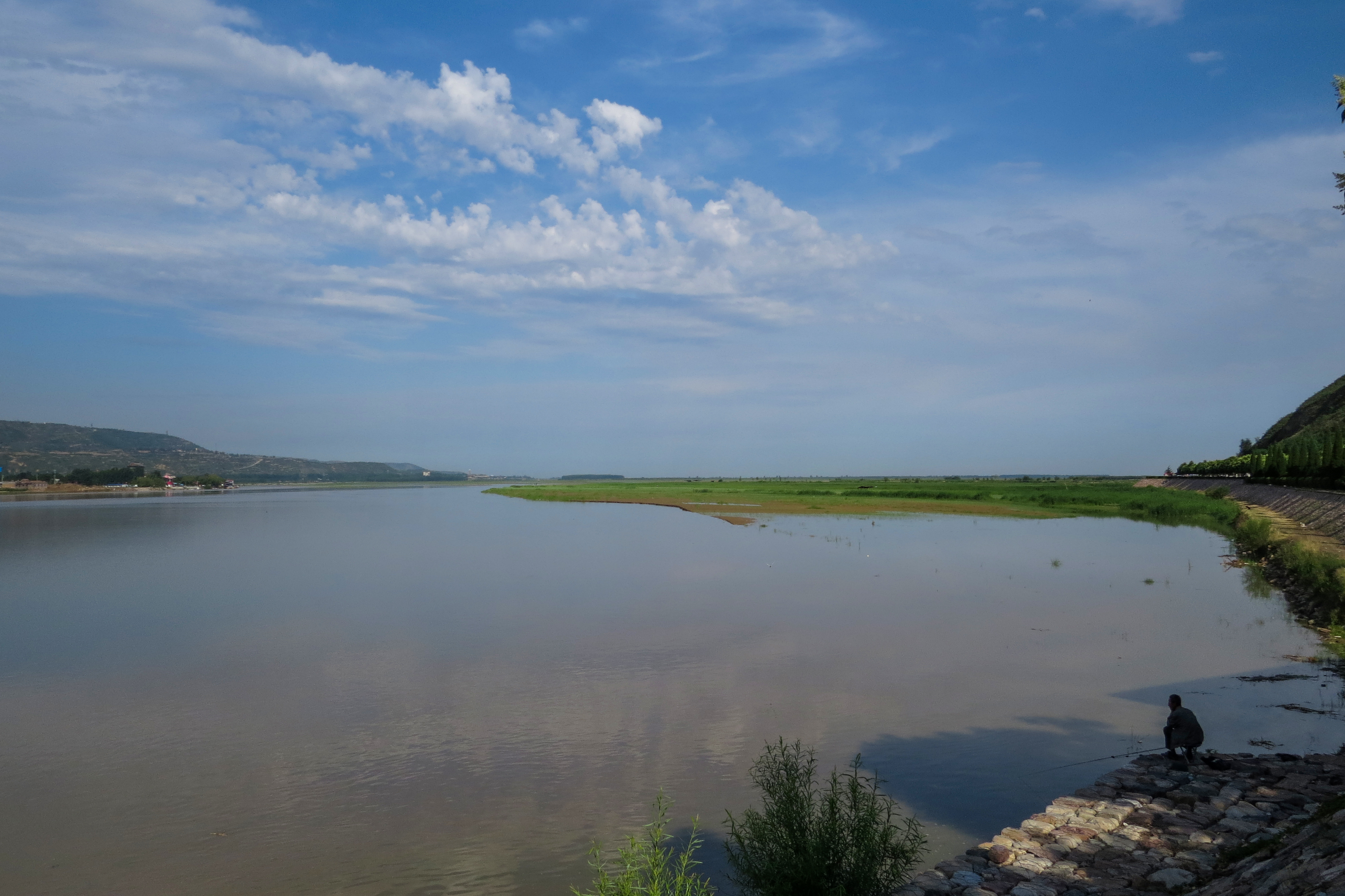 This is called "Fenghuangzui".